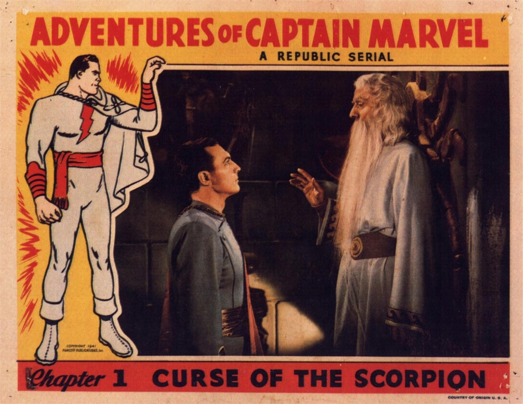 Tom Tyler (left) & Nigel De Brulier in Adventures of Captain Marvel, Chapter 1 Curse of the Scorpion - promotional poster